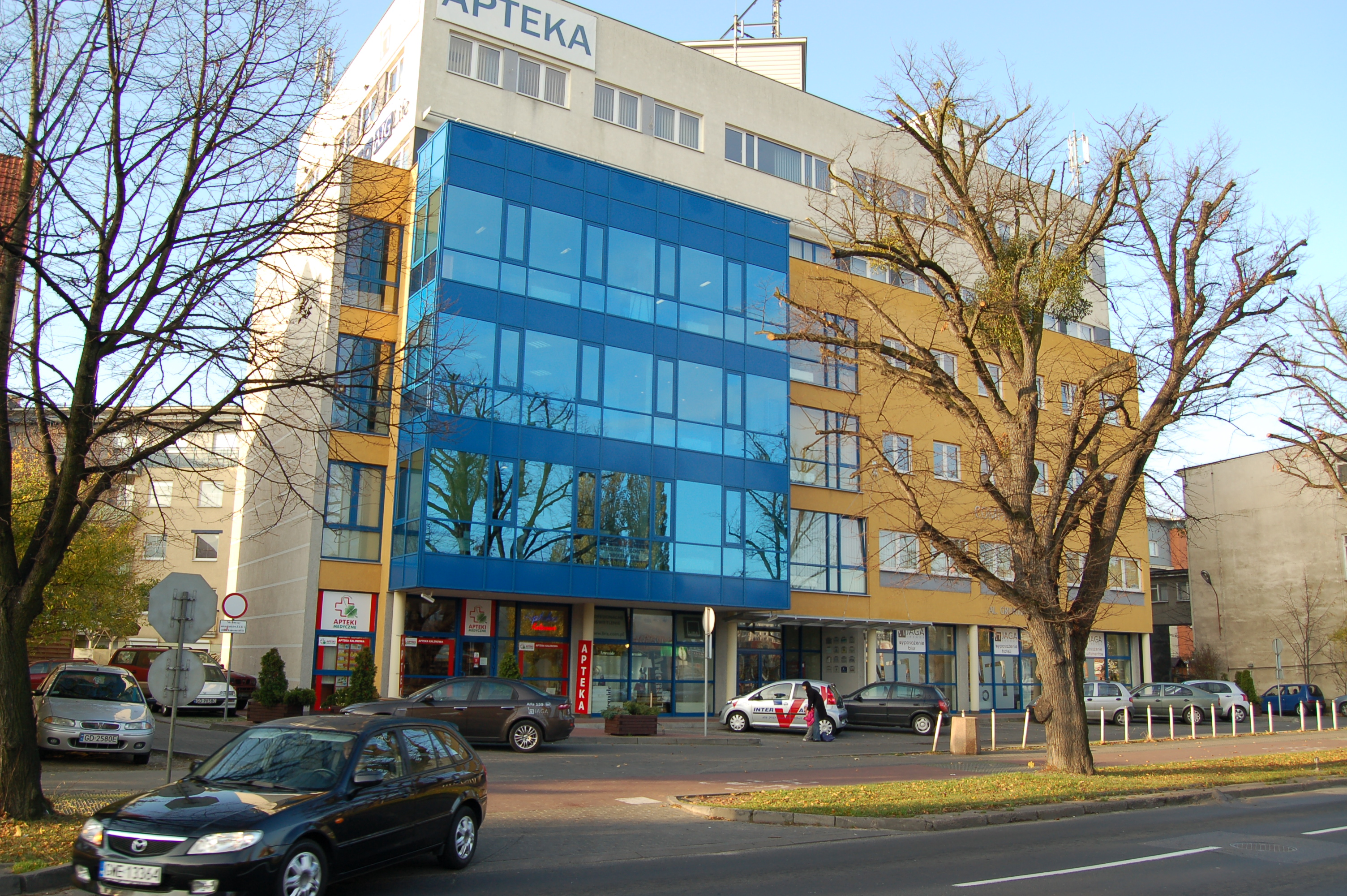 NAVIMOR-INVEST Gdansk Poland